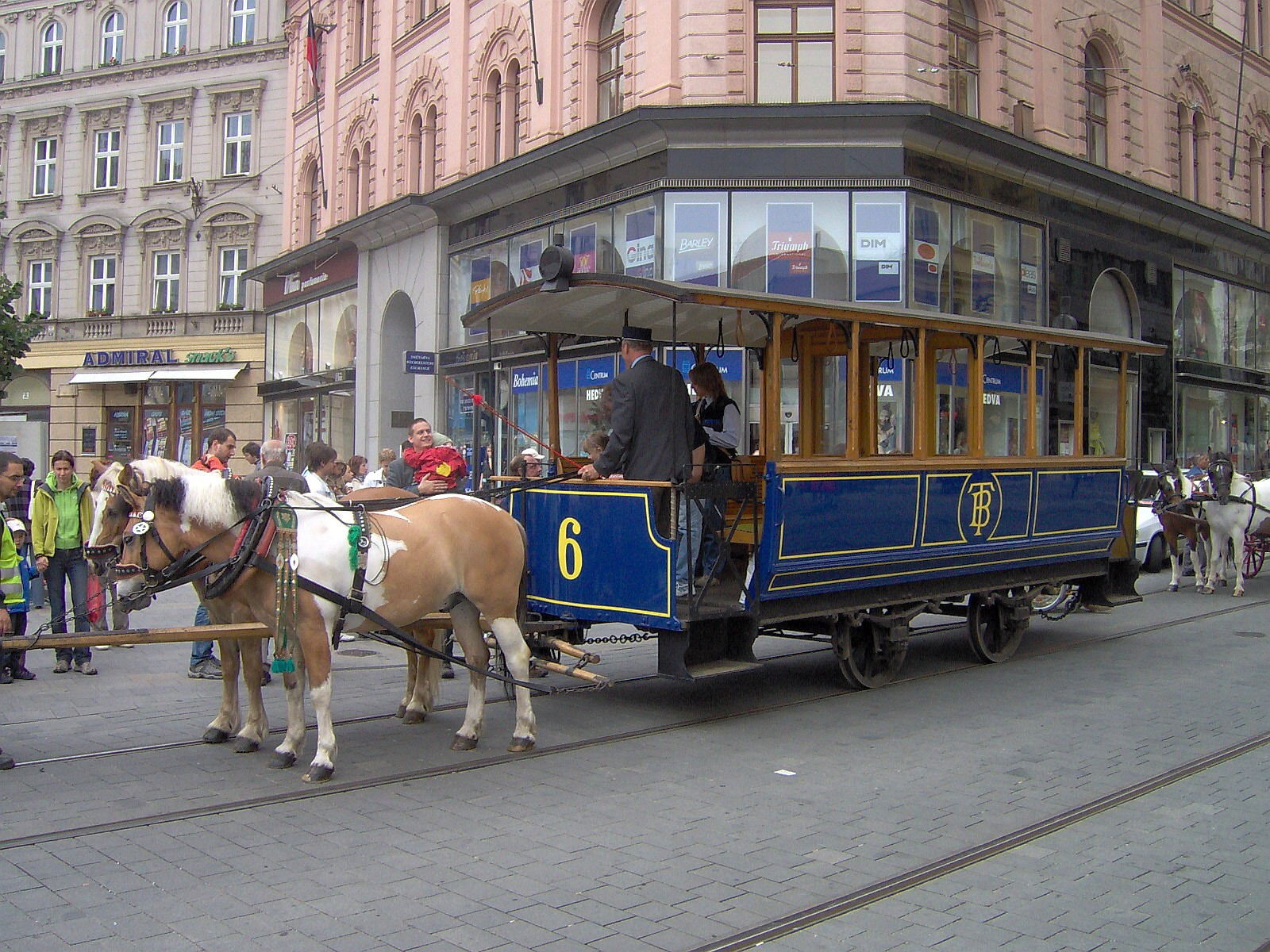 Historical horse tram No. 6, 140 years of public transport in Brno, Czech Republic